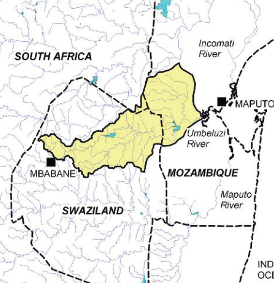 Umbeluzi River basin